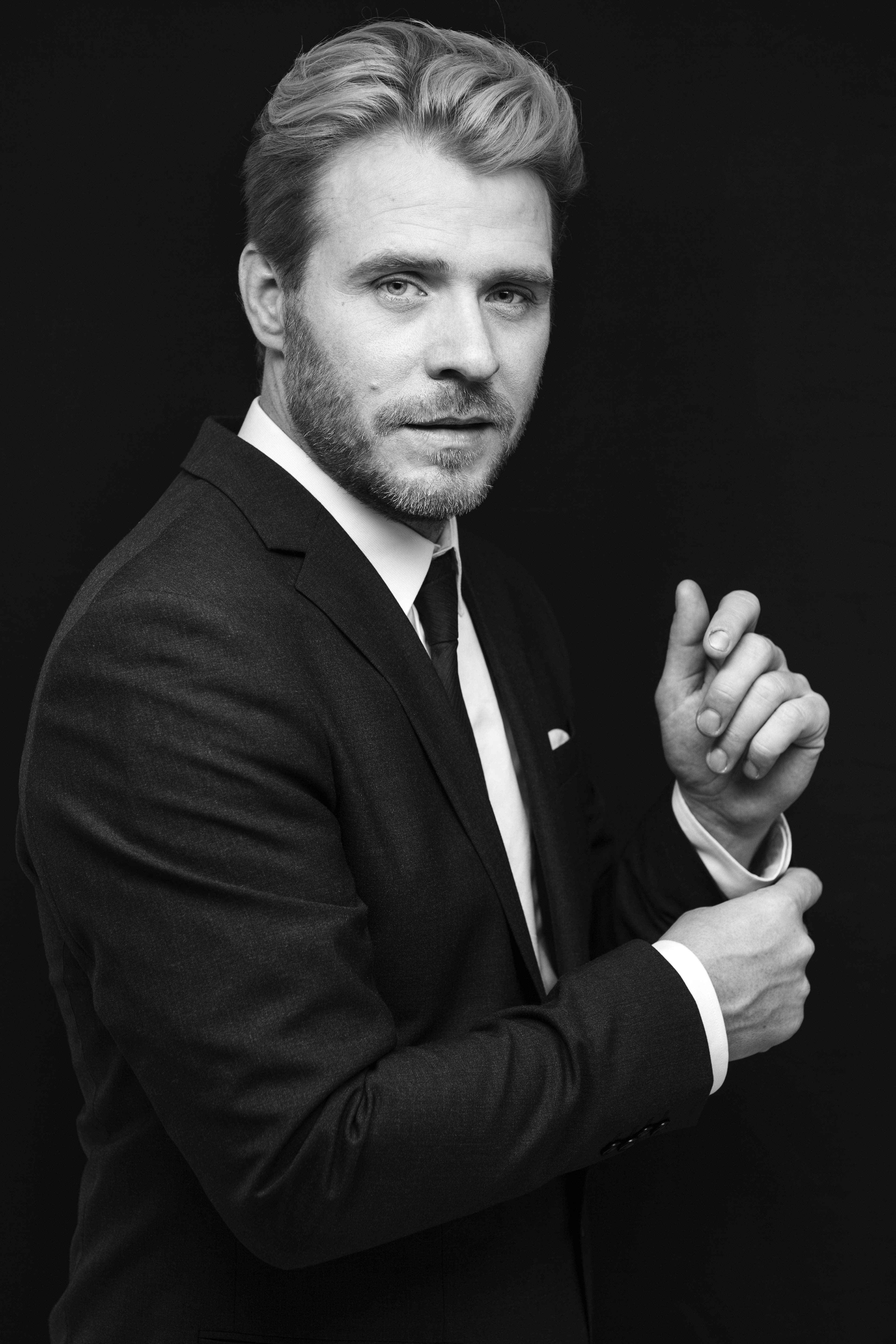 Picture of Henrik Norlen